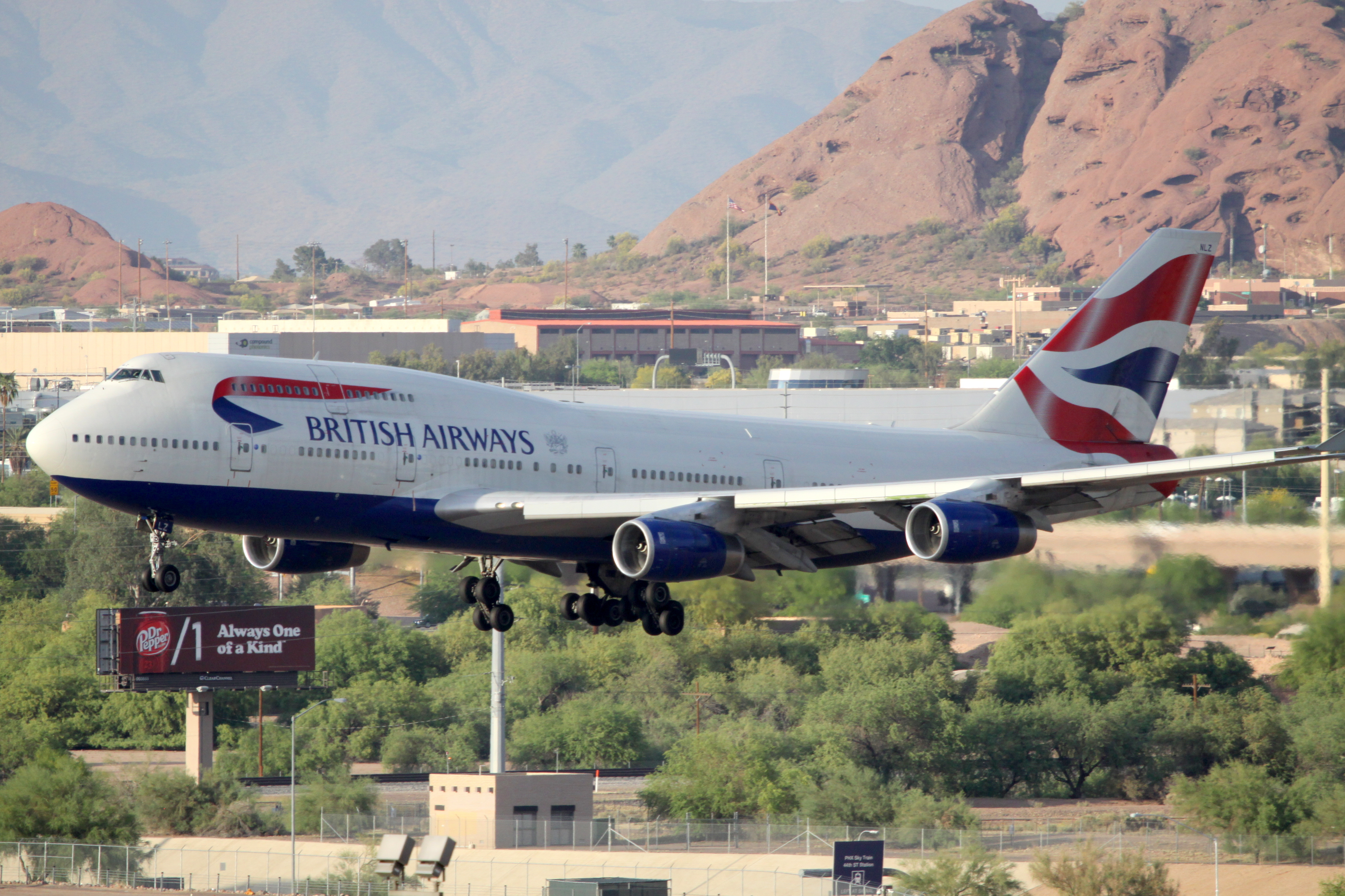 At Phoenix Sky Harbor International